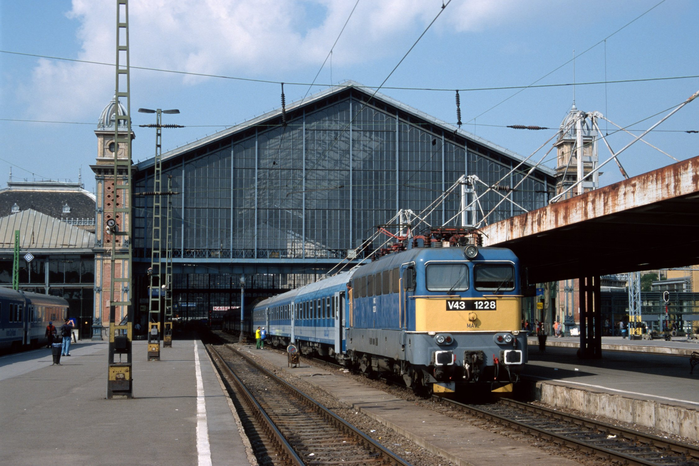 Budapest Nyugati railway station, trackside view